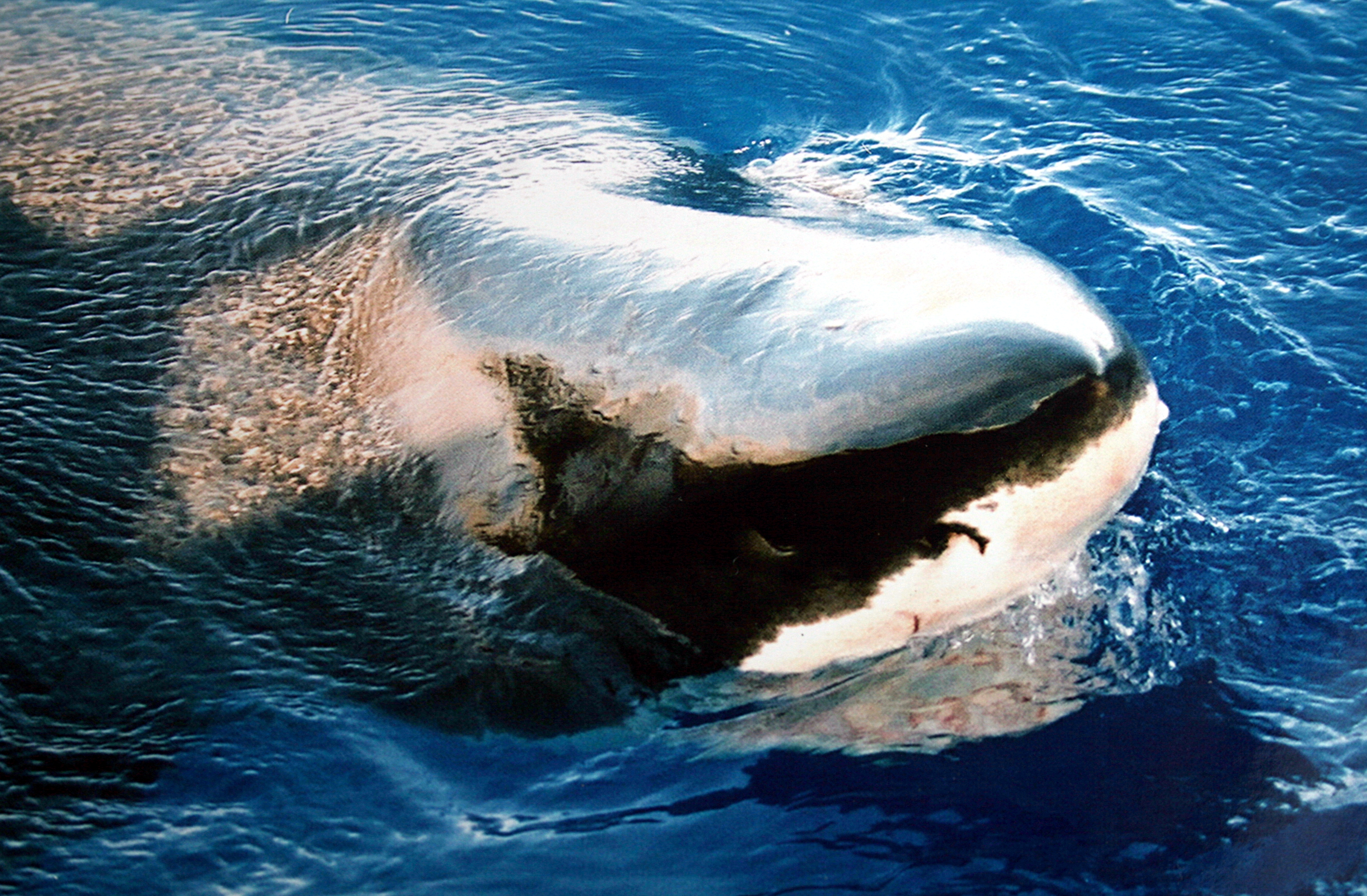 A great white shark at Isla Guadalupe, Mexico. You could see his lower teeth in the water. The picture is a digital copy of my old film picture.